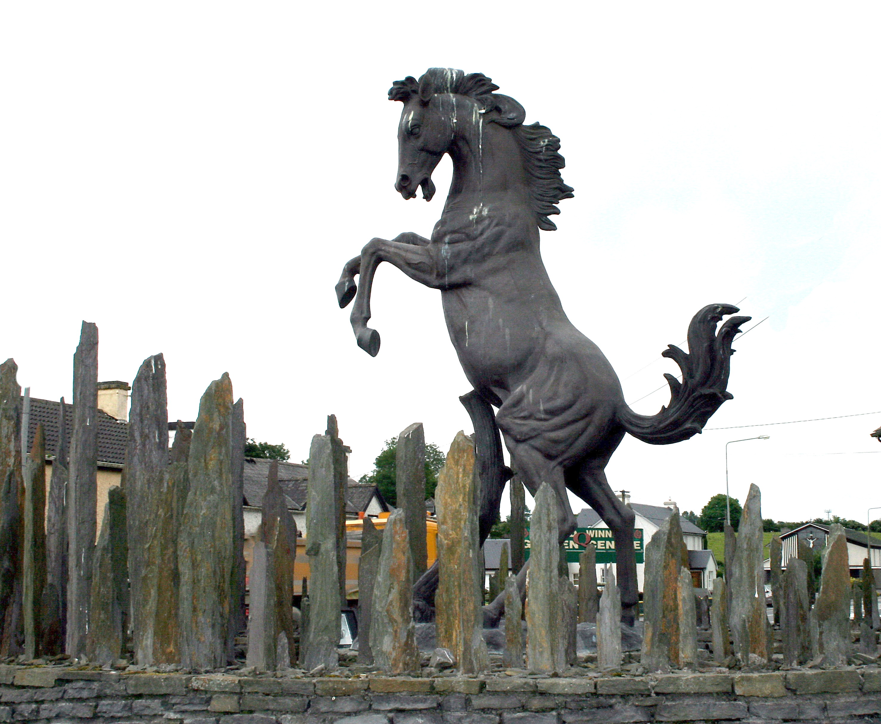 Sculpture in Horseleap, Ireland, straddling the Offaly/westmeath border?